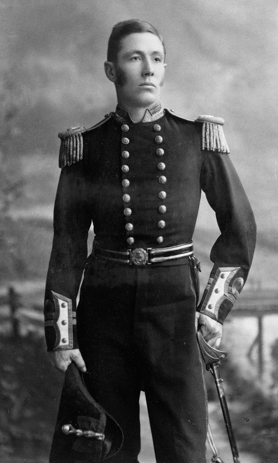 Portrait of William Rooke Creswell.